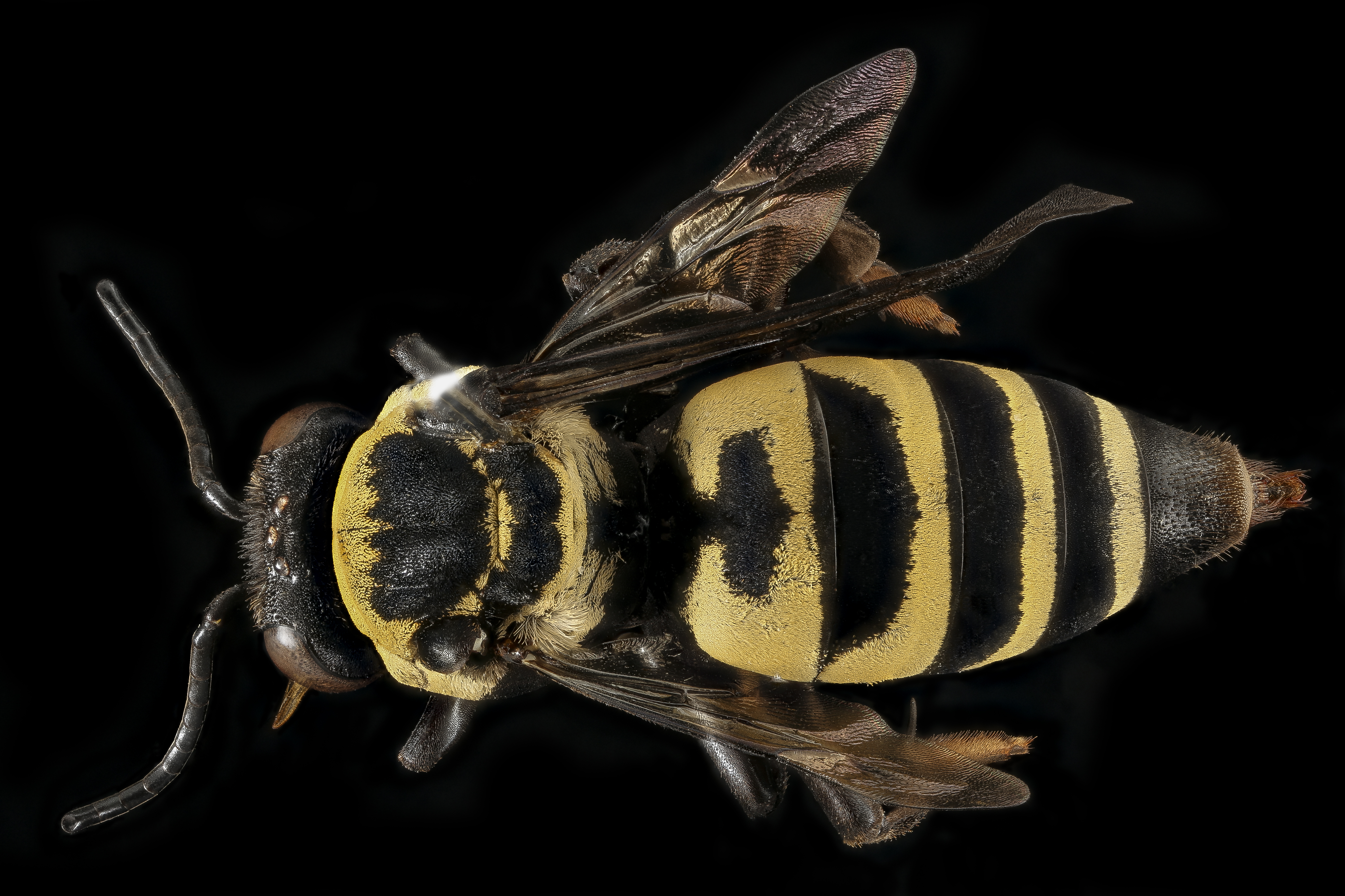 Triepeolus concavus. Most Triepeolus bees are nest parasites of Melissodes, but a few interestingly have taken up with other groups of bees. This big one invades the nests of Svastra species...a group allied with Melissodes but a bit more robust and buff in their body. This one collected in Badlands National Park. One of many places on the Earth I consider as a favorite. 21:50, 4 February 2017 (UTC)21:50, 4 February 2017 (UTC) 0 21:50, 4 February 2017 (UTC)21:50, 4 February 2017 (UTC) All photographs are public domain, feel free to download and use as you wish. Photography Information: Canon Mark II 5D, Zerene Stacker, Stackshot Sled, 65mm Canon MP-E 1-5X macro lens, Twin Macro Flash in Styrofoam Cooler, F5.0, ISO 100, Shutter Speed 200 Beauty is truth, truth beauty - that is all Ye know on earth and all ye need to know " Ode on a Grecian Urn" John Keats You can also follow us on Instagram - account = USGSBIML Want some Useful Links to the Techniques We Use? Well now here you go Citizen: Art Photo Book: Bees: An Up-Close Look at Pollinators Around the World Basic USGSBIML set up: USGSBIML Photoshopping Technique: Note that we now have added using the burn tool at 50% opacity set to shadows to clean up the halos that bleed into the black background from "hot" color sections of the picture. PDF of Basic USGSBIML Photography Set Up: ftp://ftpext.usgs.gov/pub/er/md/laurel/Droege/How%20to%20Take%20MacroPhotographs%20of%20Insects%20BIML%20Lab2.pdf Google Hangout Demonstration of Techniques: or Excellent Technical Form on Stacking: Contact information: Sam Droege 301 497 5840